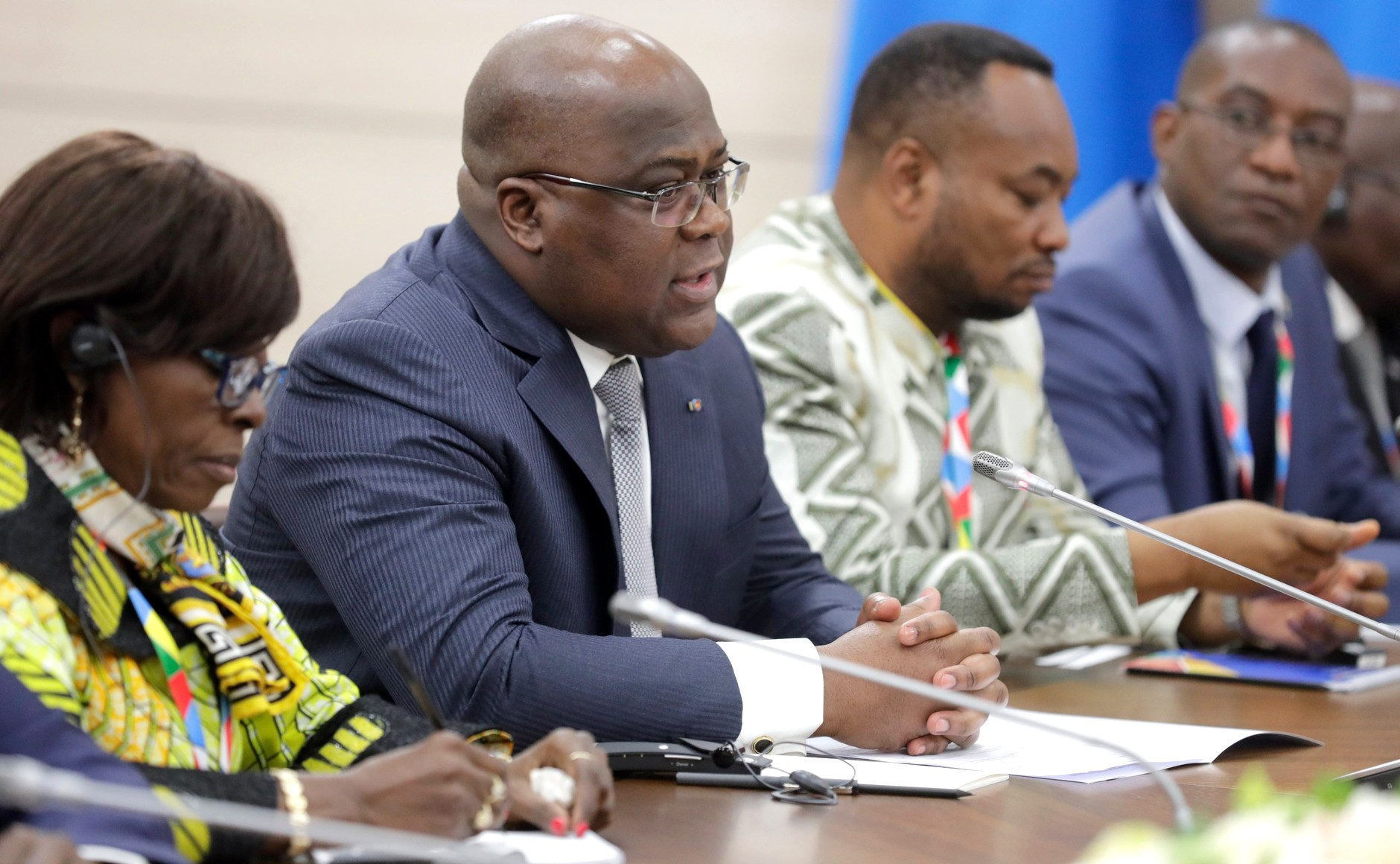 Meeting with President of the Democratic Republic of the Congo Félix Tshisekedi.